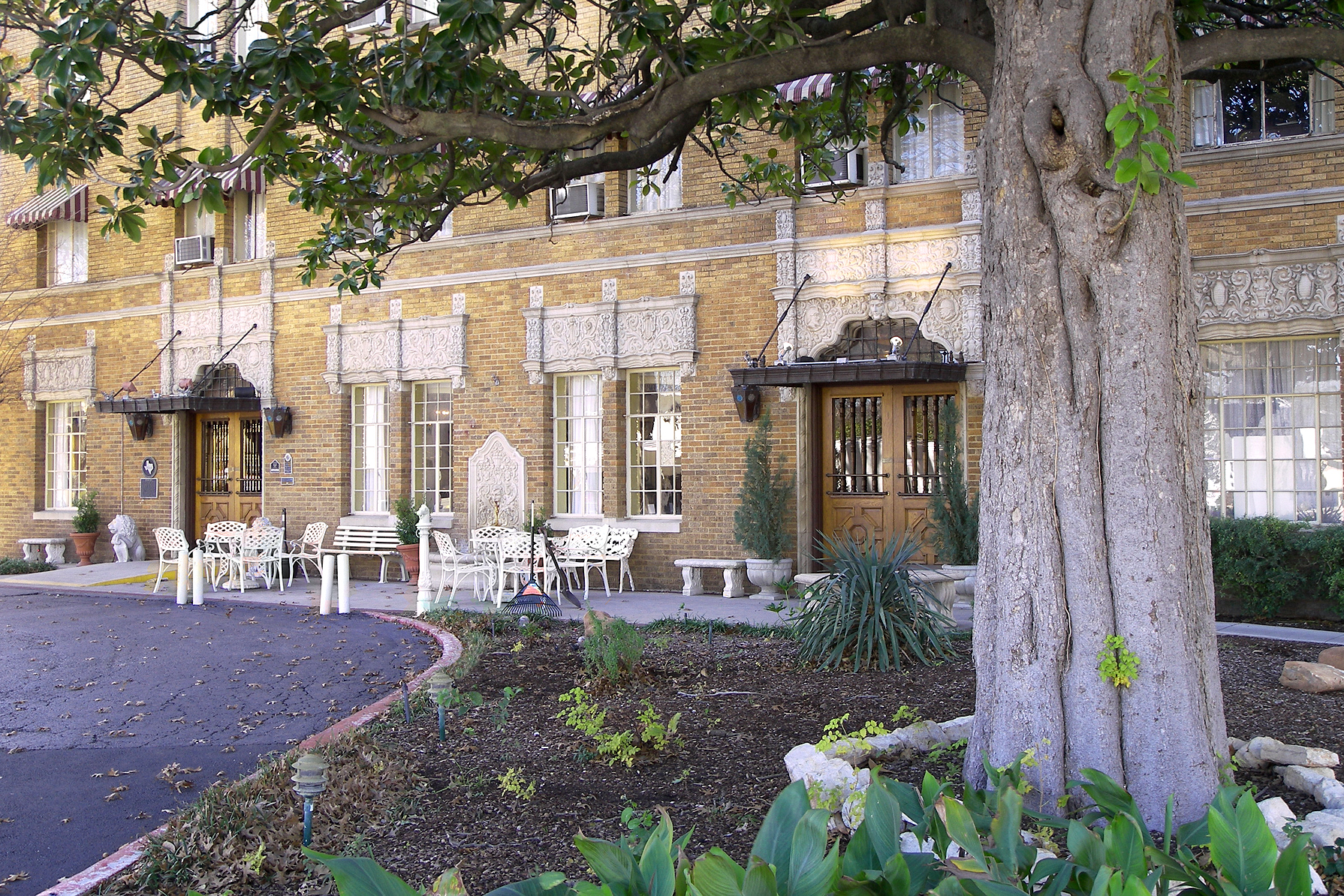 The Hotel Faust in New Braunfels, Texas, United States. The hotel was designated a Recorded Texas Historic Landmark in 1984 and listed on the National Register of Historic Places on May 2, 1985.